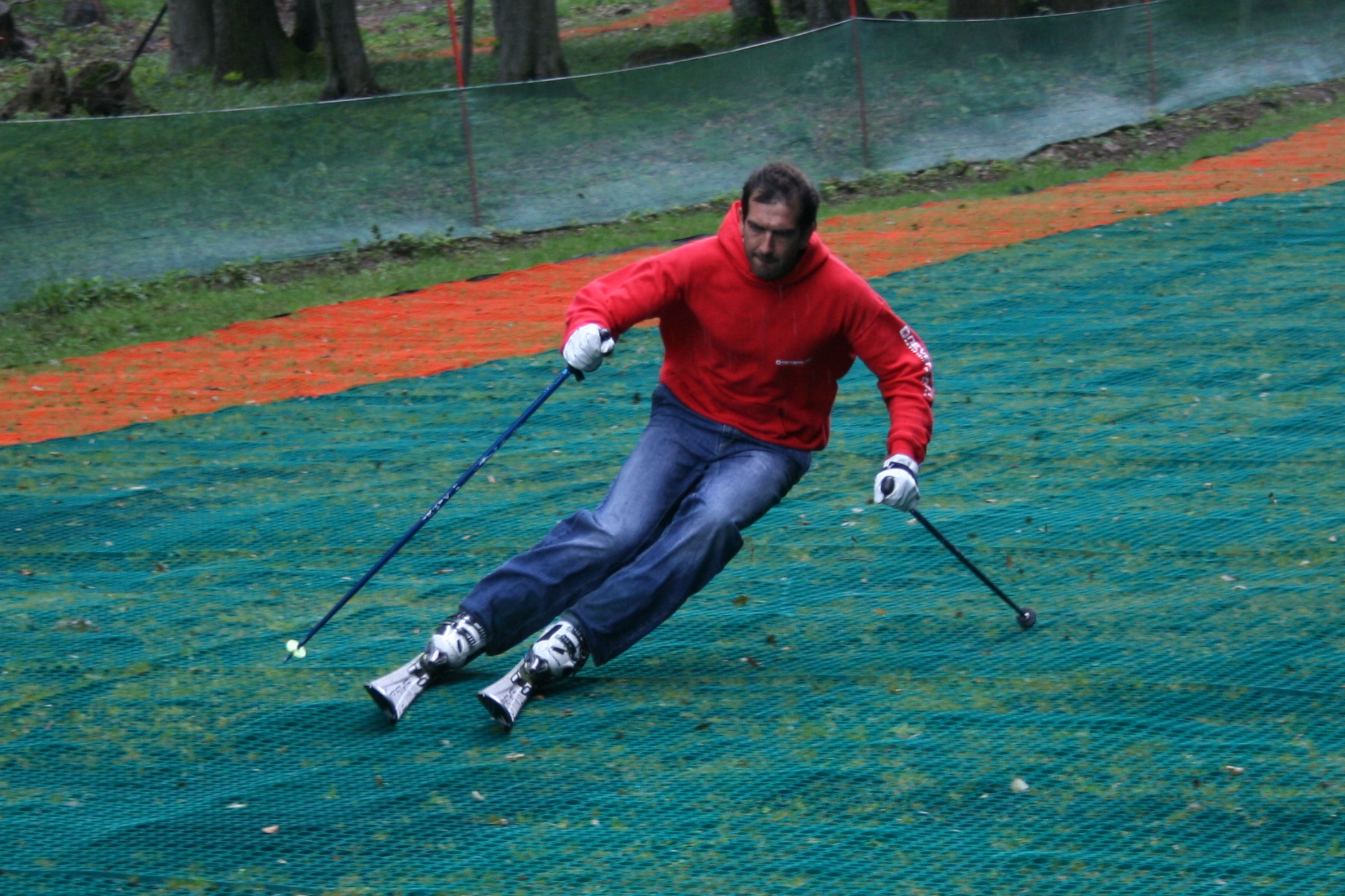 dry ski slope